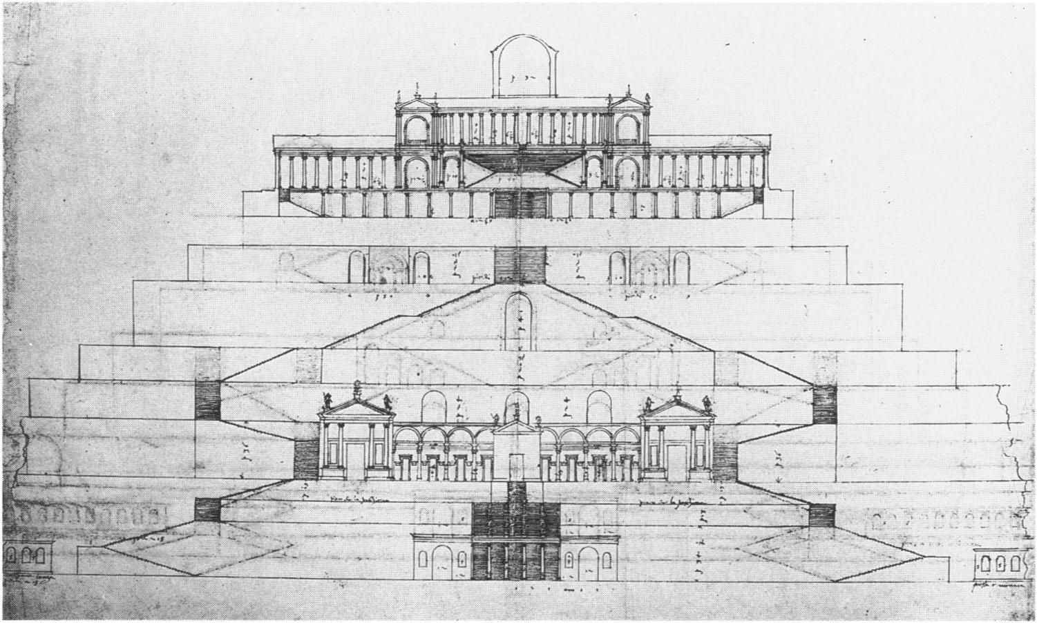 Elevation view of the reconstruction of the temple of Fortuna Primigenia at Palestrina by Andrea Palladio.